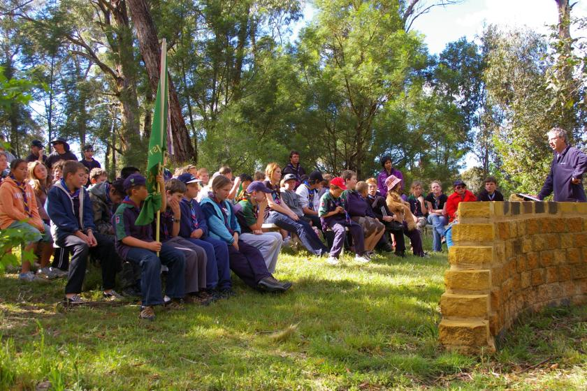 This is a digital image of youth members of Scouts Australia from several groups attending "Scouts Own" during a camp